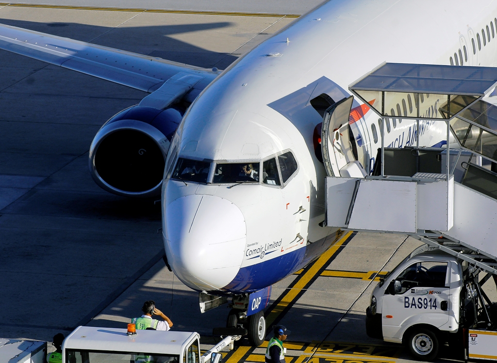 British Airways operated by Comair Ltd parked at the gate.